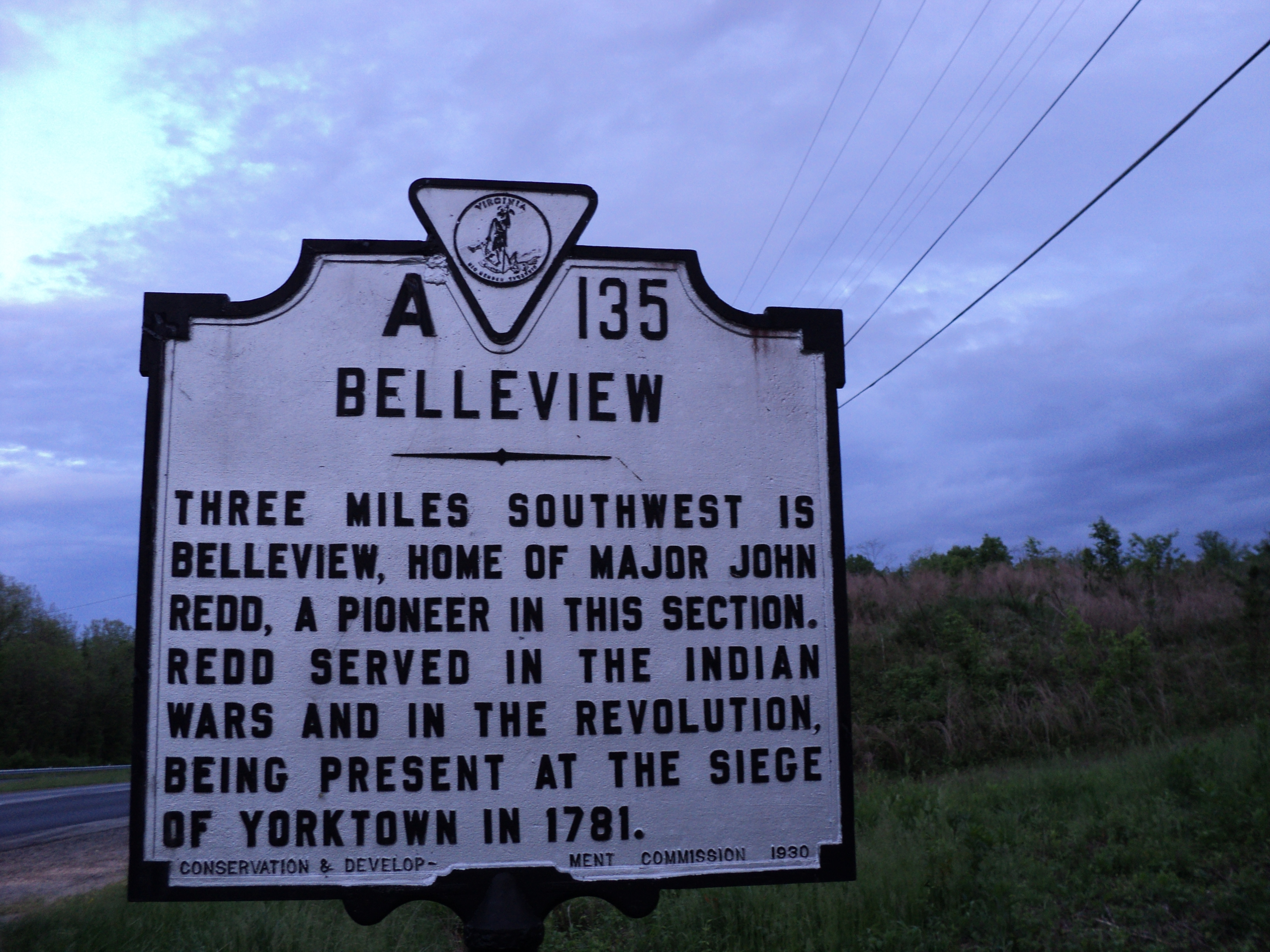 The state historic marker for "Belleview," the plantation belonging to Major John Redd, a pioneer of Southside Virginia, soldier and planter.